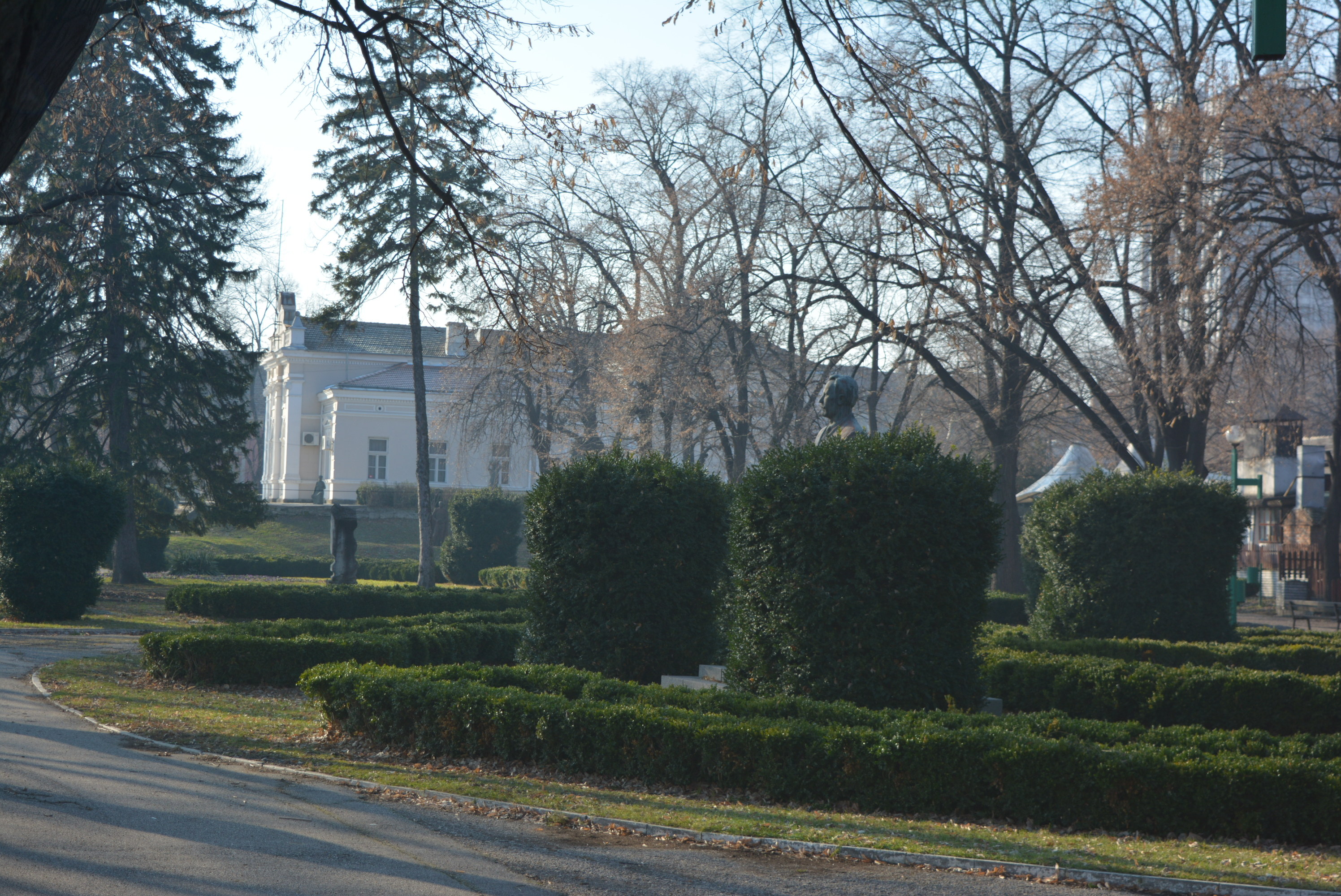 City garden near the Danube in Vidin summer 2017